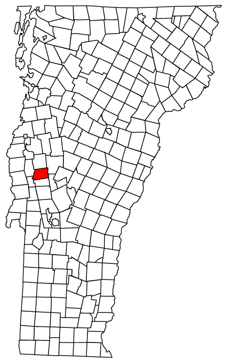 Description: Map of Vermont towns with Salisbury highlighted Source: Map created by Jared C. Benedict on 26 March 2004. Copyright: © Jared C. Benedict.